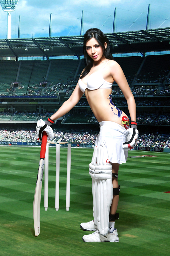 Rozlyn Khan's photo shoot for IPL